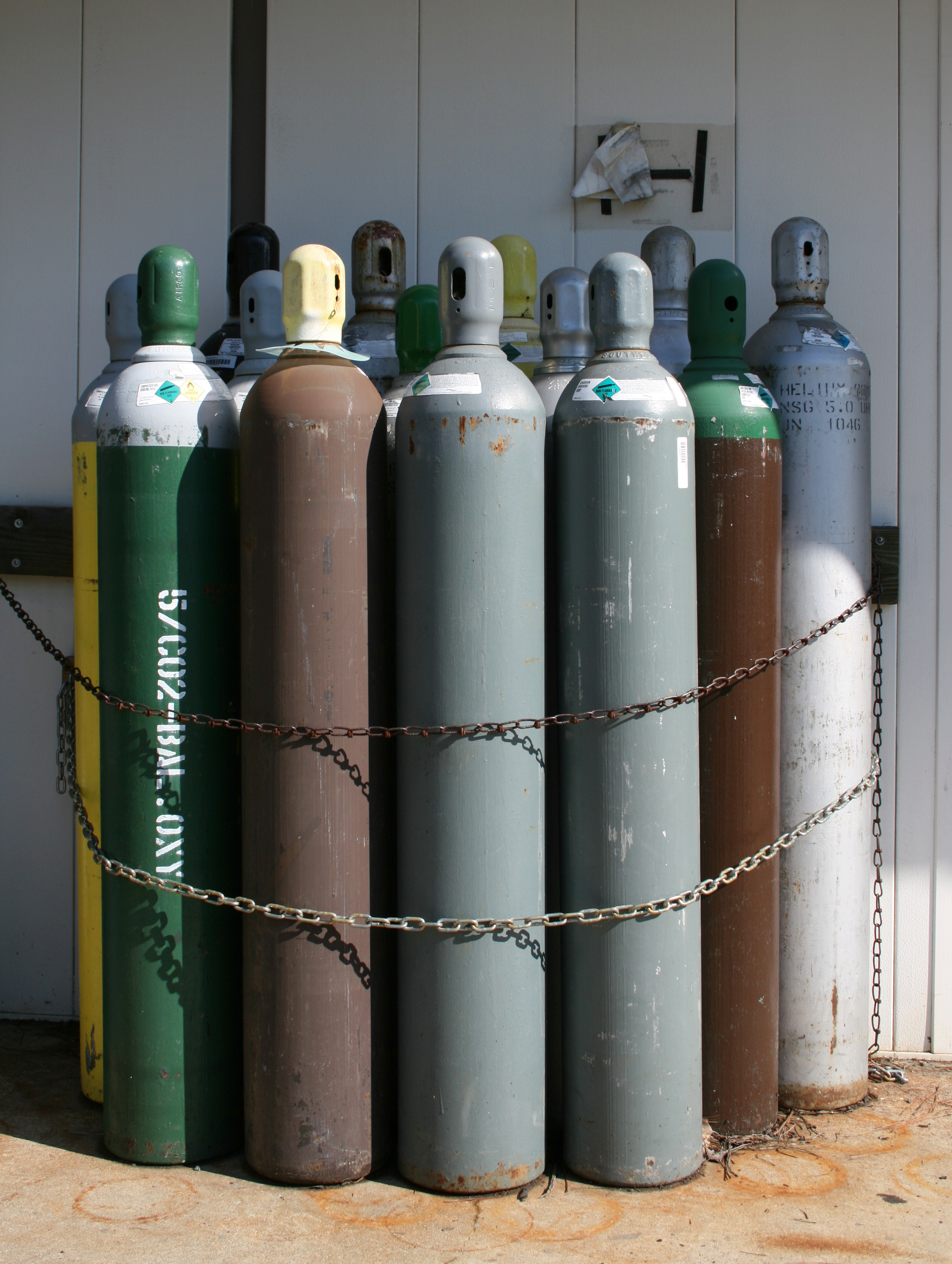 An assortment of compressed gas tanks chained to a wall at Duke University in Durham, North Carolina (This type of storage is called a cluster. Although an approved way to store cylinders it is not ideal. Individual wall mounts, cylinder racks or storage cabinets are normally recommended. Also cylinders should not be stored exposed to the sun or other heat sources.) .